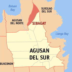 Map of the Agusan del Sur showing the location of Sibagat